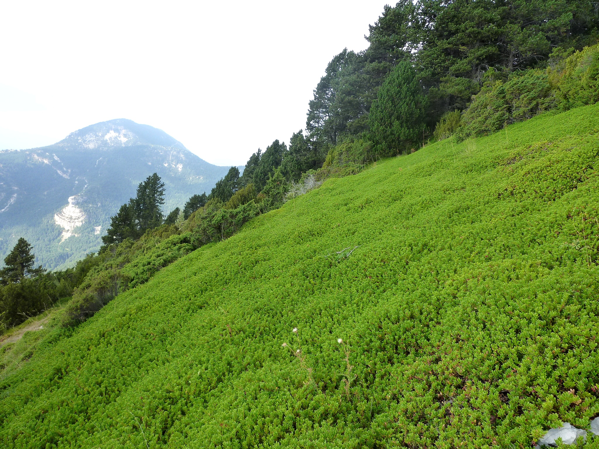 Arctostaphylos uva-ursi. In la Bòfia, Guixers (Solsonès - Catalunya). To 1.890 m. altitude